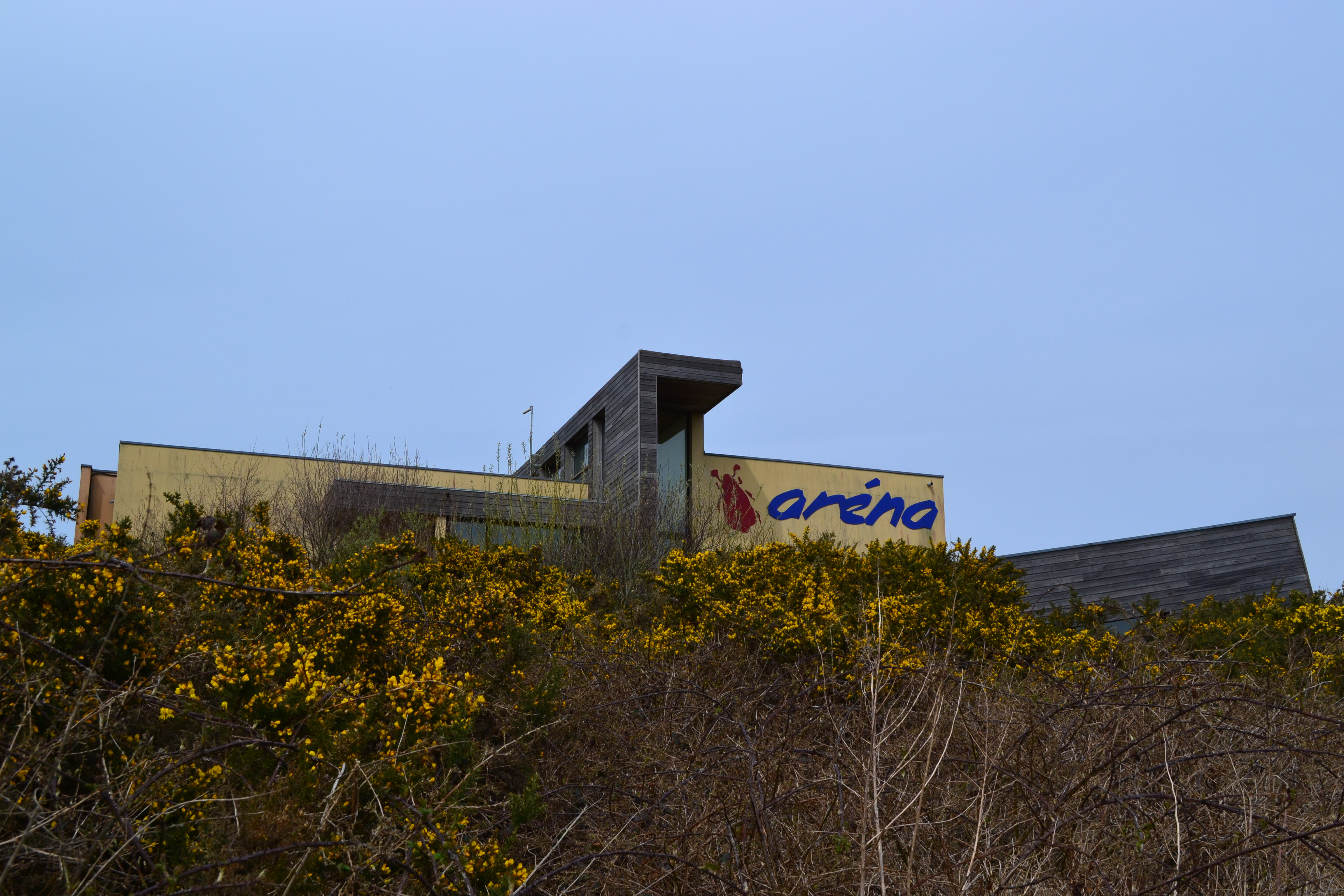 The Dunes Center of Arena.